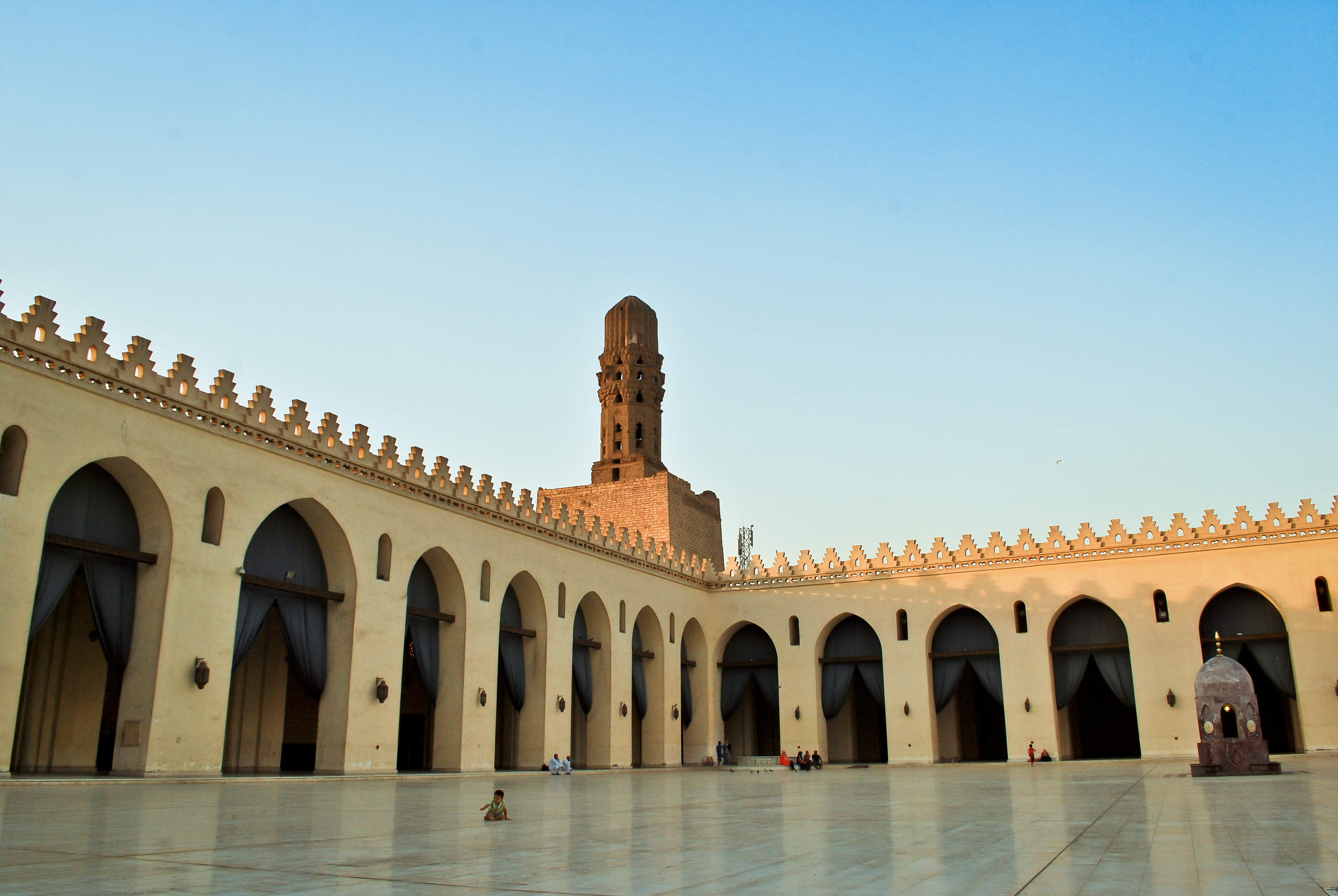 Al-Jam`e Al-Anwar also Al-Hakim Mosque is a major Islamic religious site in Cairo, Egypt. It is named after Imam Al-Hakim bi-Amr Allah, the sixth Fatimid caliph,16 th Fatimid/Ismaili Imam and the first to be born in Egypt